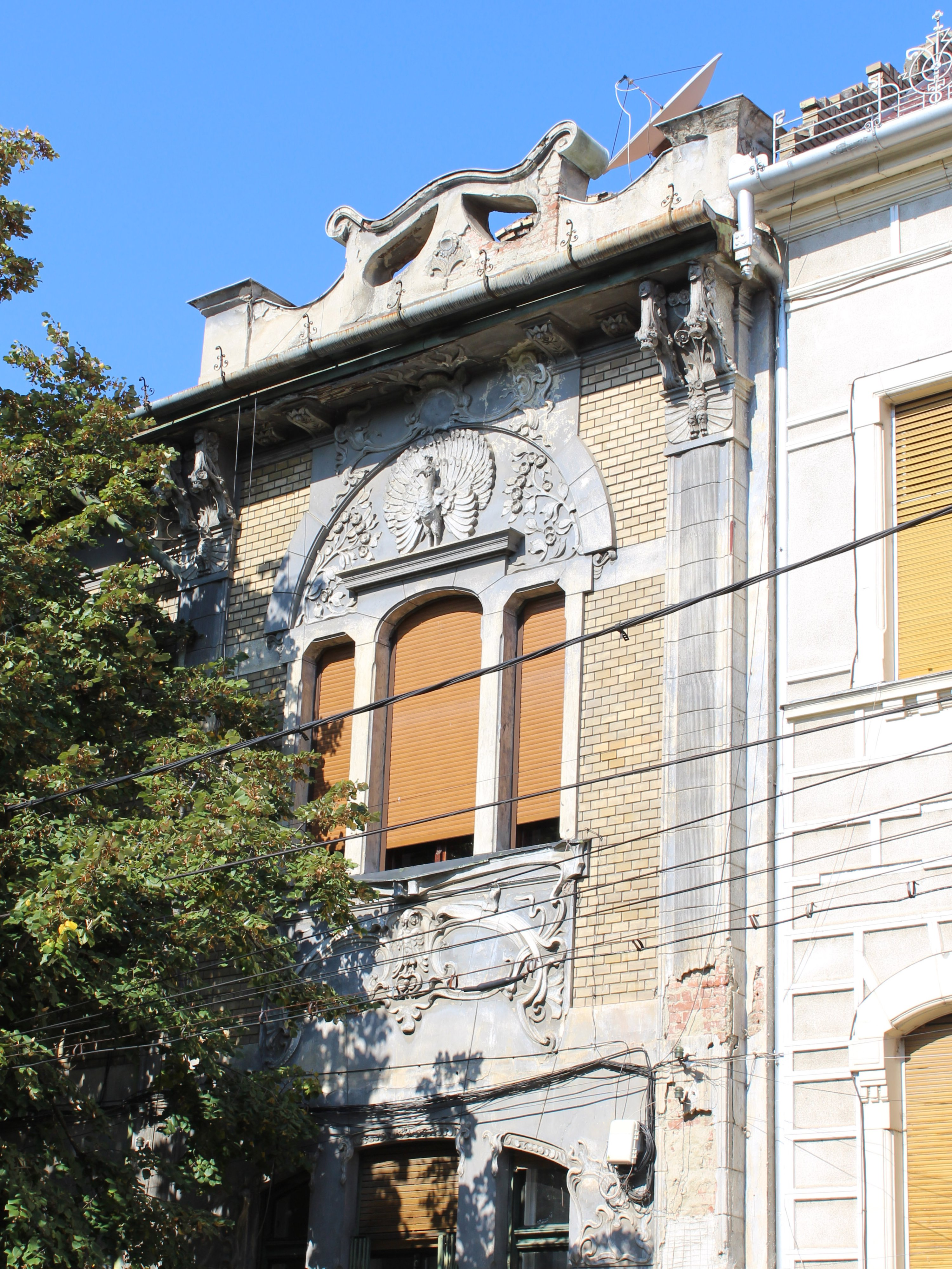 Johann Hartlauer House, Timișoara, Romania, built 1904.